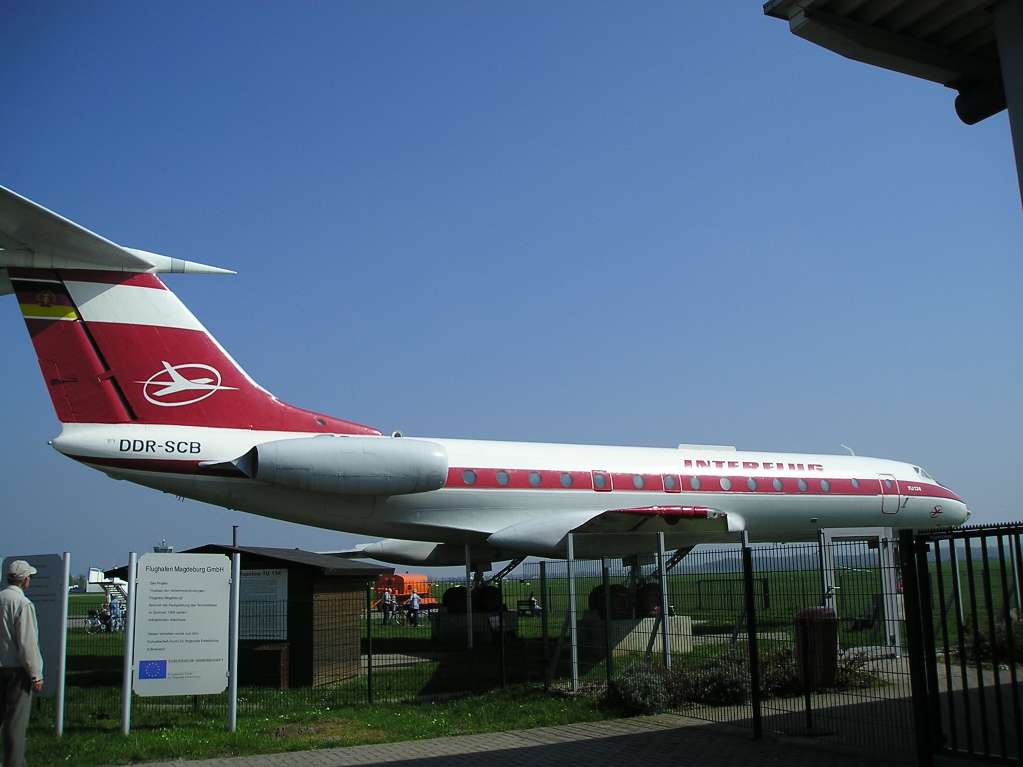 Airliner Tupolev Tu-134 DDR-SCB of Interflug at airfield Magdeburg, Saxony-Anhalt, Germany